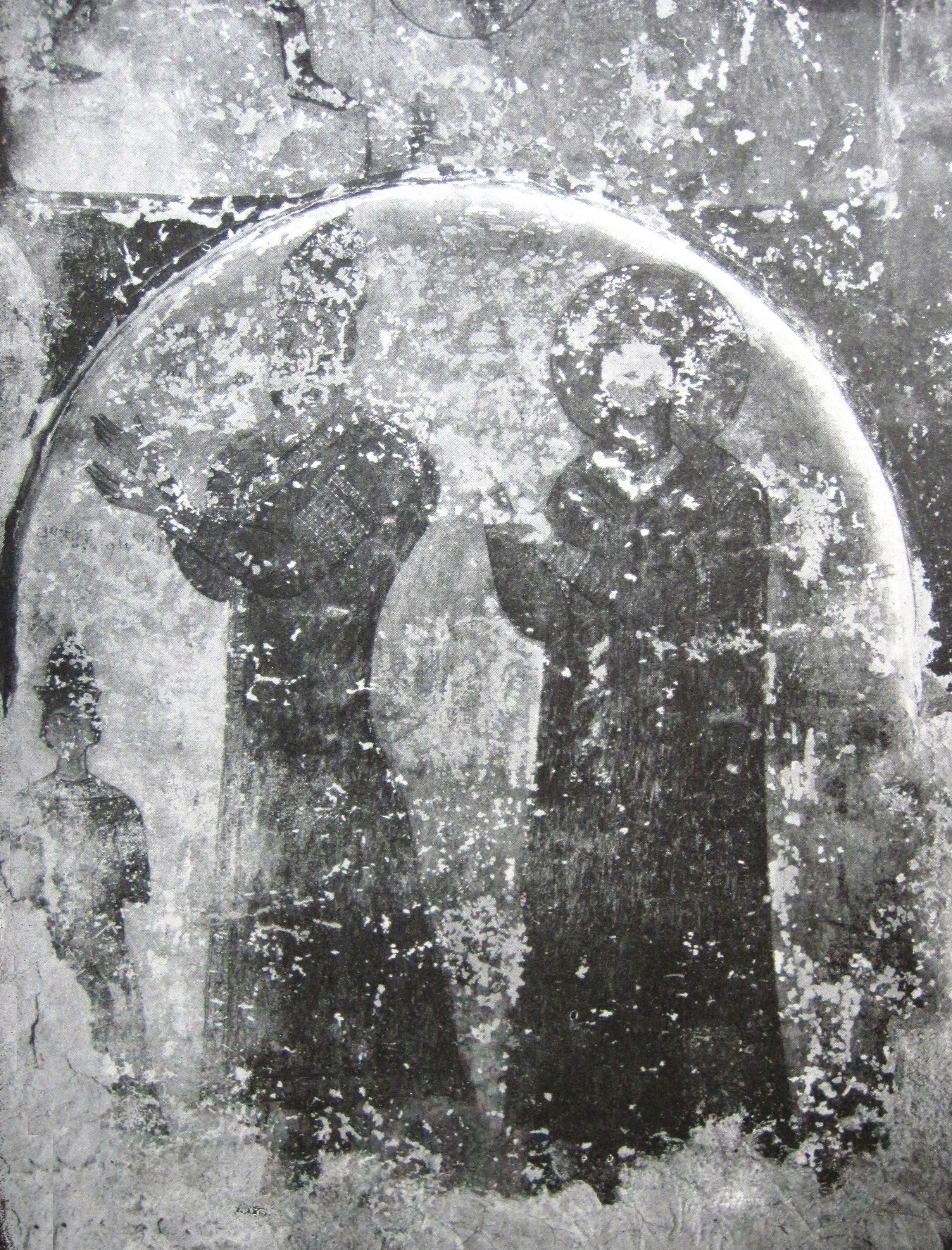 Prince Shergil Dadiani and his wife Natela with the son Tsotne and daughter Tamar. A fresco from Khobi, Georgia